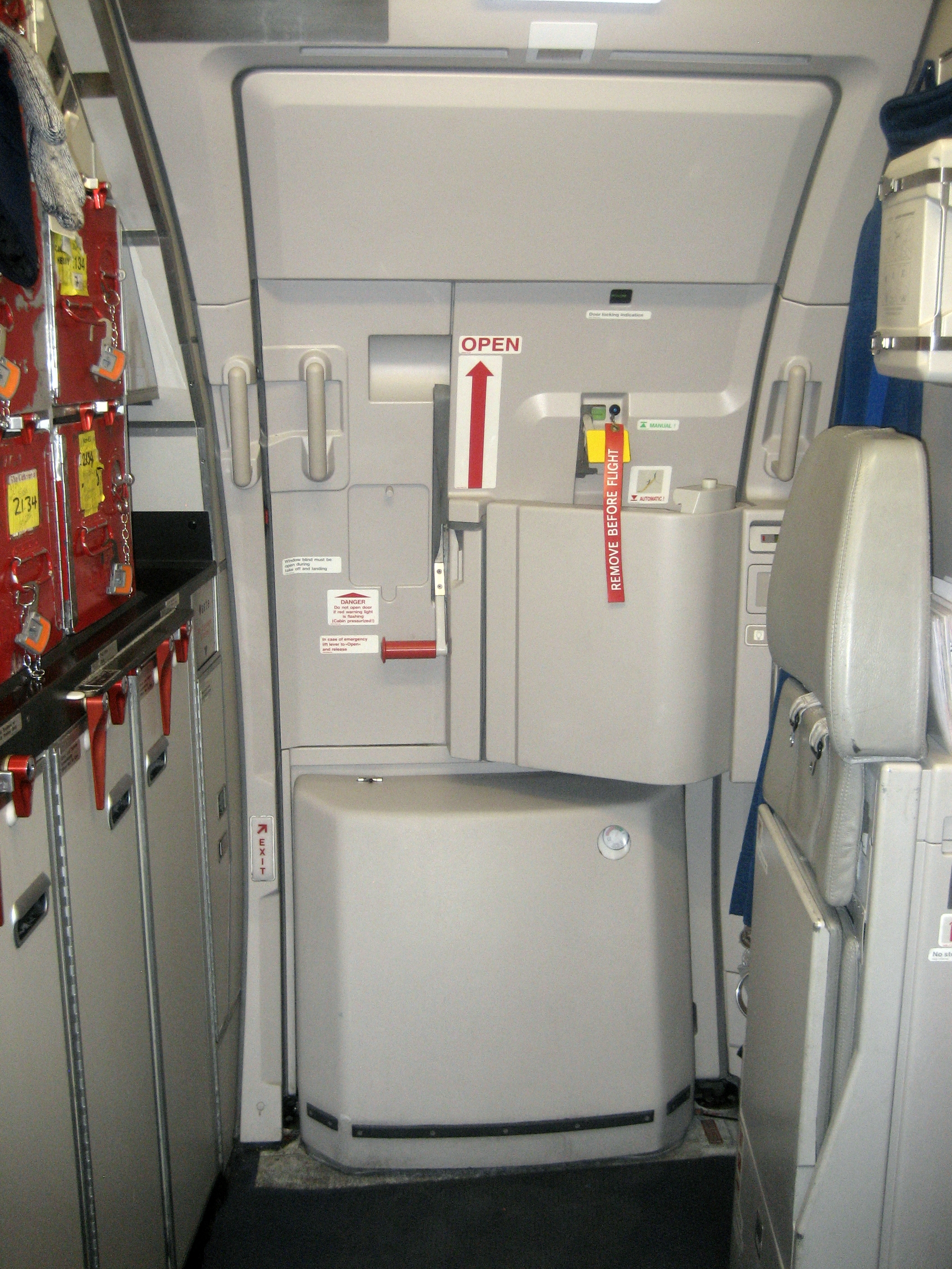 Door 2L (rear left) of an easyJet Airbus A320 aircraft. Visible elements include the escape slide (packed in bustle at bottom of door), arming lever, opening lever, crew jumpseat and galley.